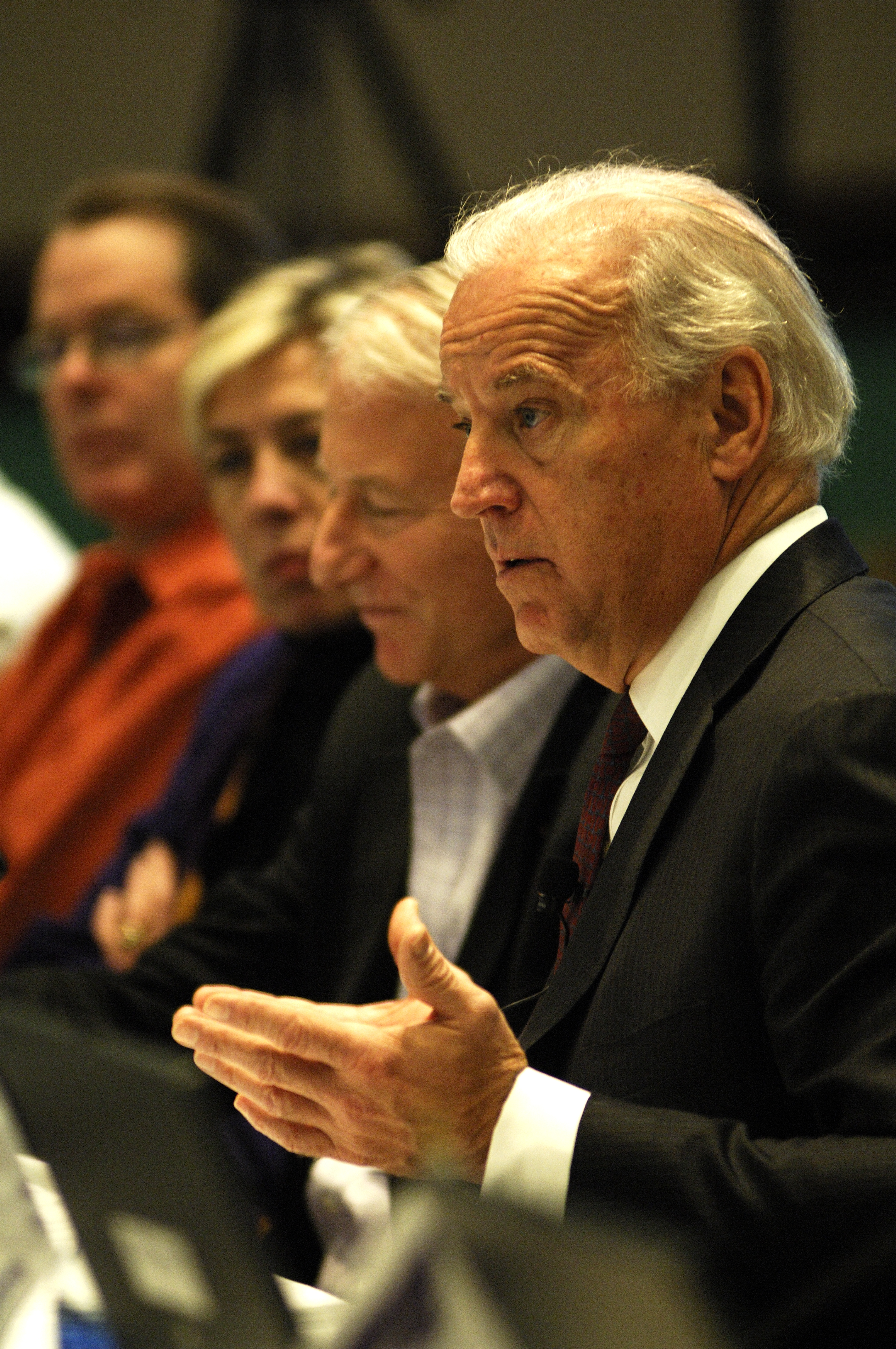 On Jan. 26-27, 2007 at Gallaudet University in Washington DC, SEIU local union leaders individually questioned eight Democratic presidential hopefuls—Sen. Hillary Clinton (D-NY), Sen. Barack Obama (D-IL), Sen. Joe Biden (D-DE), Rep. Dennis Kucinich (D-OH), former Sen. John Edwards (D-NC), Sen. Chris Dodd (D-CT), Gov. Bill Richardson (D-NM), and former Gov. Tom Vilsack (D-IA) —about where they stand on the issues that matter most to SEIU members: affordable health care, good jobs, and retirement security.